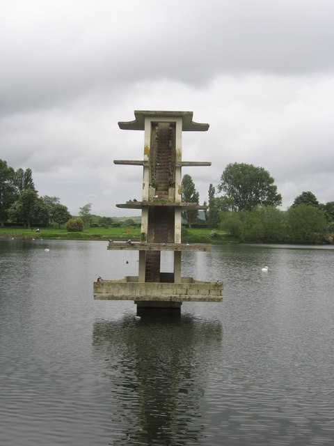 Diving Tower English Heritage have listed this magnificent Art Deco reinforced concrete diving tower on Coate Water. Reminds me of a chinese pagoda from this angle. No longer safe for humans to use but the birds love it